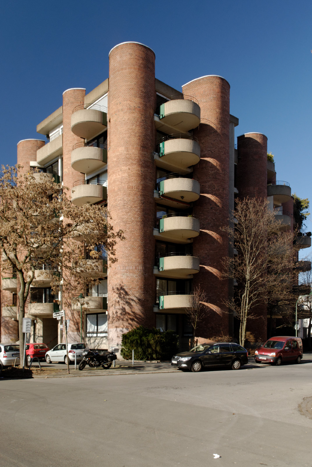 House Golzheimer Straße 120 in Düsseldorf-Derendorf, Germany